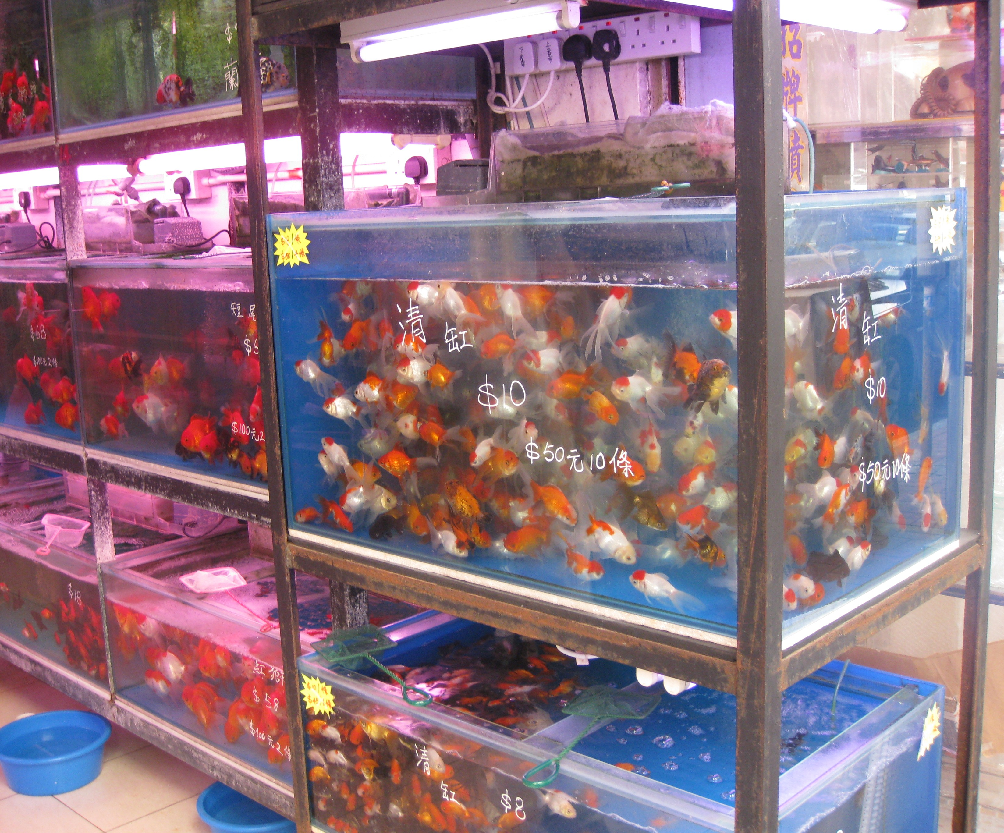 Hong Kong Goldfish Market